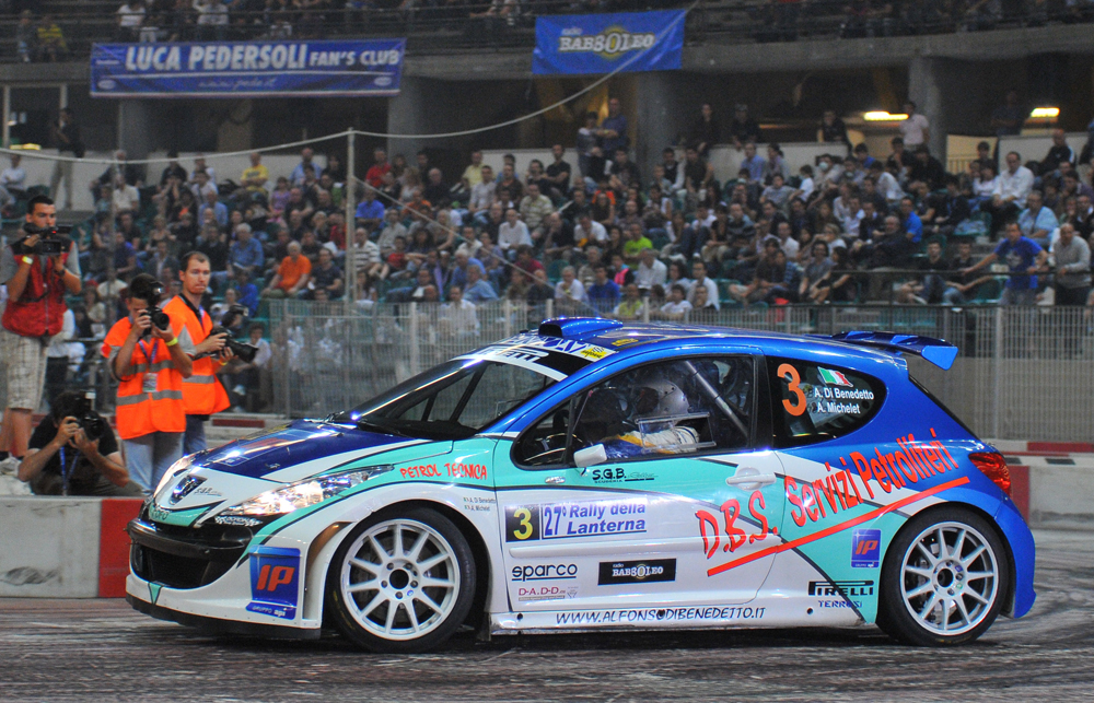 Di benedetto driver